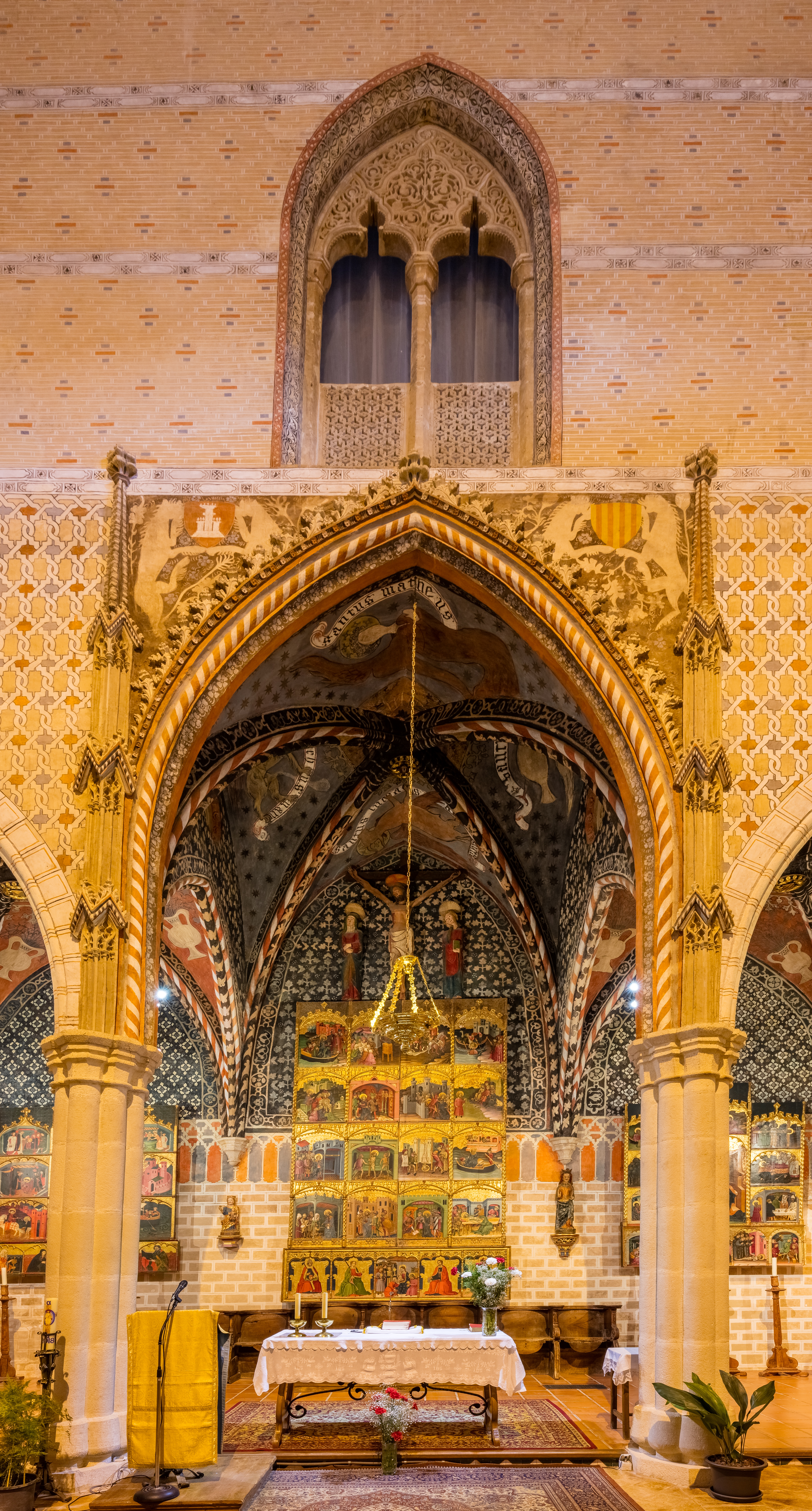 Church of St Felix, Torralba de Ribota, Zaragoza, Spain